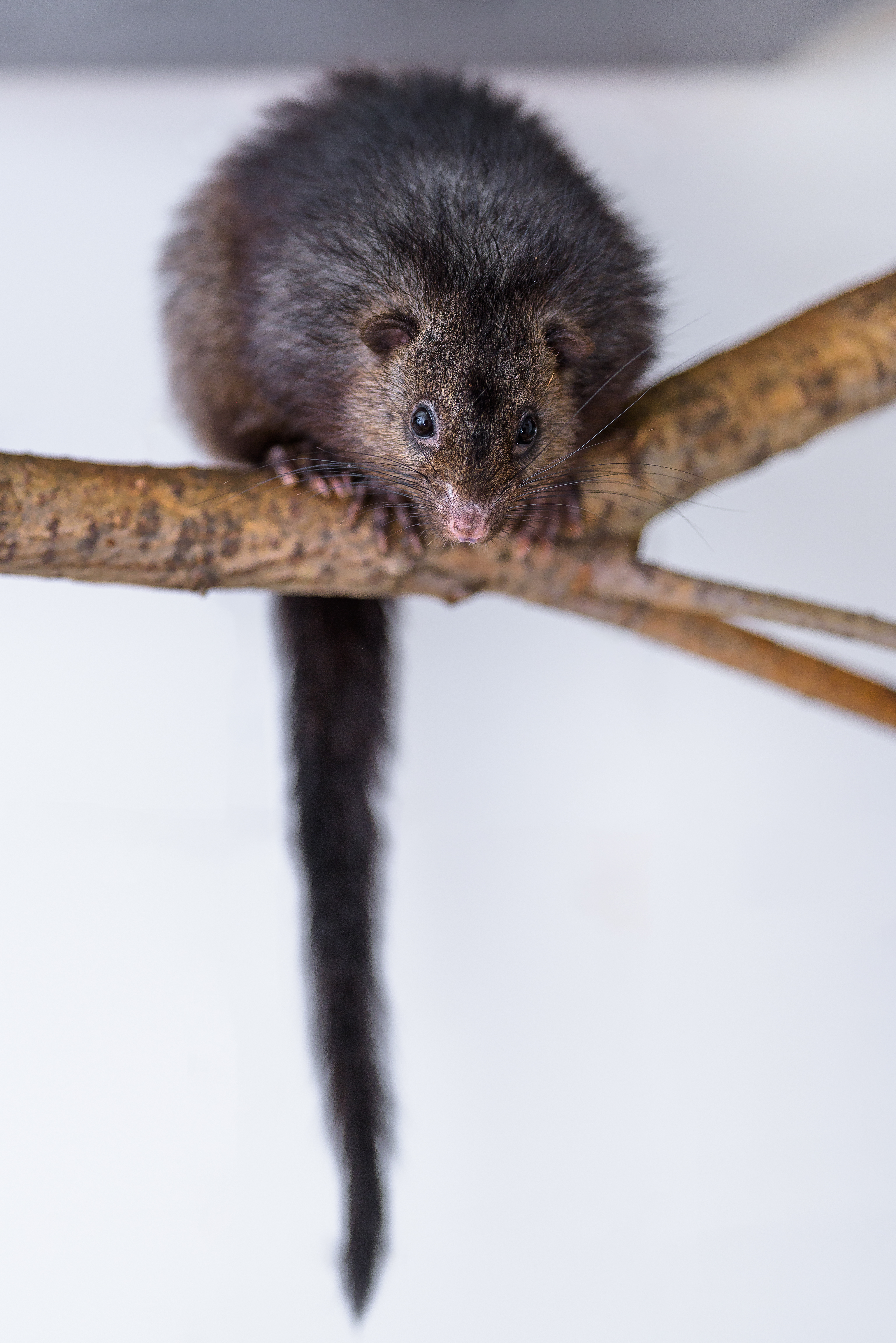 Panay cloudrunner in Prague Zoo